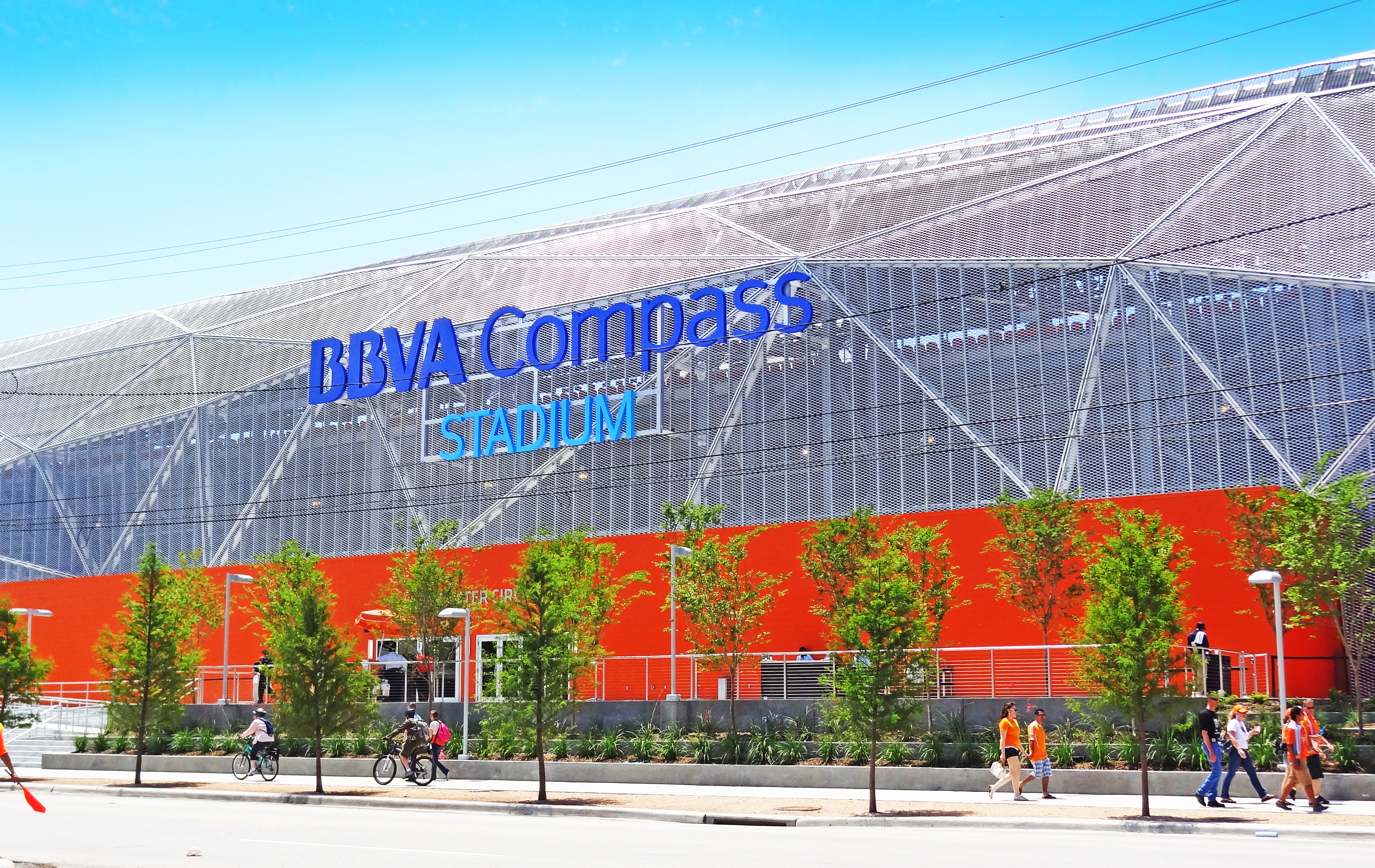 Photo by Paul Duron, East Facade of BBVA Compass Stadium along Dowling Street in Houston's east end (EaDo)